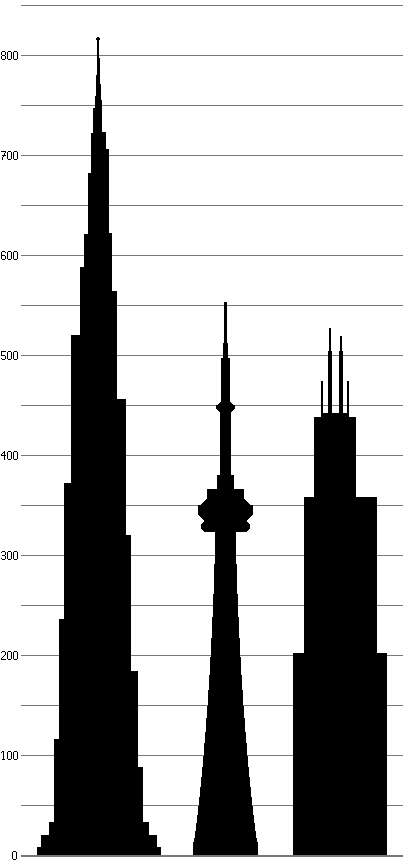 Two tall towers—CN Tower, Willis Tower—from central/western United States and Canada. Profiles used to compare size with Burj Dubai.